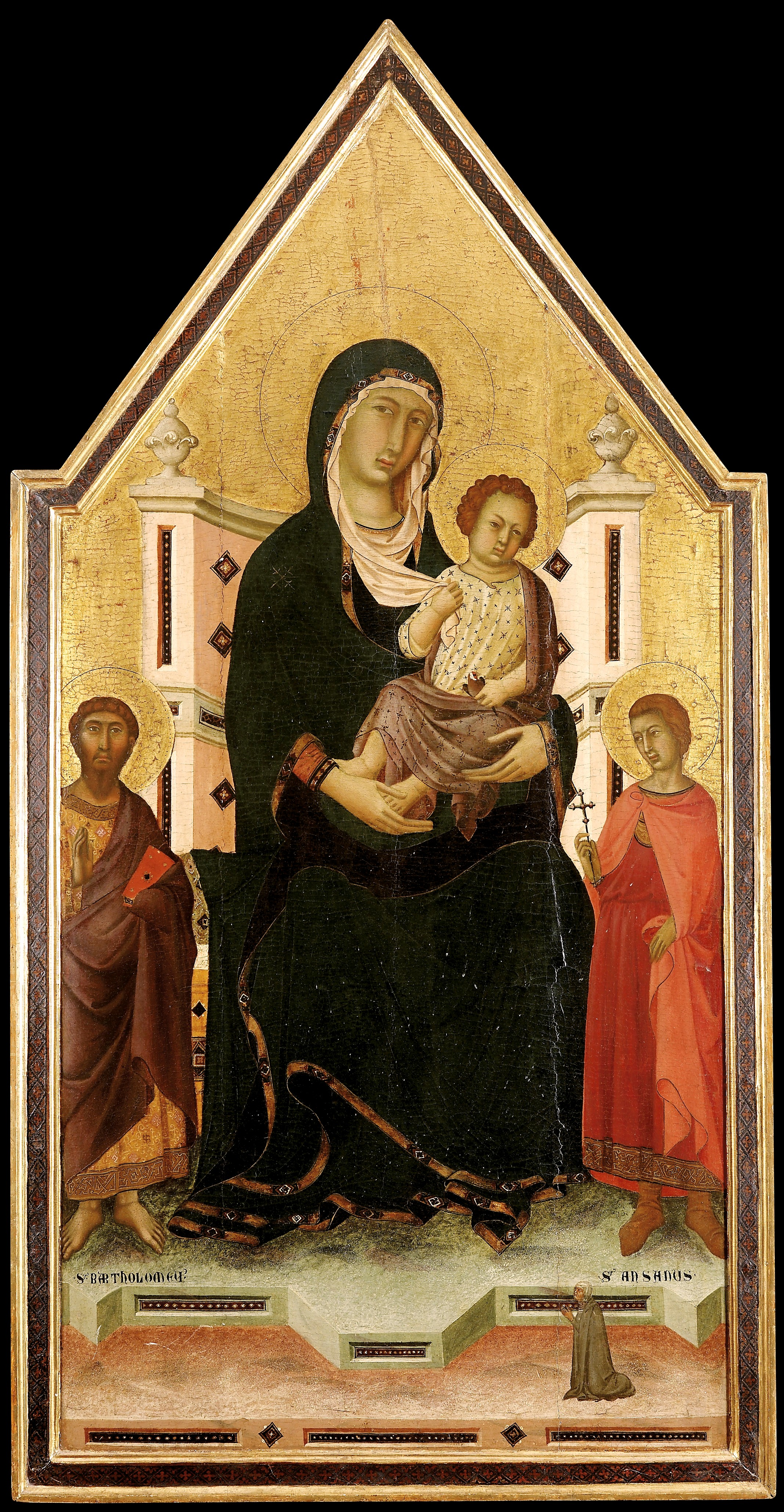 Segna di Bonaventura, The Madonna and Child enthroned with Saints Bartholomew and Ansanus and a donor , ca 1330, 166,4x81,5 cm, Monte dei Paschi, Siena